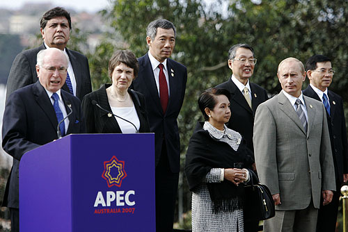 SYDNEY. Reading the final declaration adopted by the participants in the Asia-Pacific Economic Cooperation Forum\'s summit. Front row, left-to-right: John Howard (Australia), Helen Clark (New Zealand), Gloria Macapagal-Arroyo (Philippines), Vladimir Putin (Russia). Rear row, l-r: Alan García (Peru), Lee Hsien Loong (Singapore), Stan Shih (Taiwan), Nguyễn Minh Triết (Vietnam)